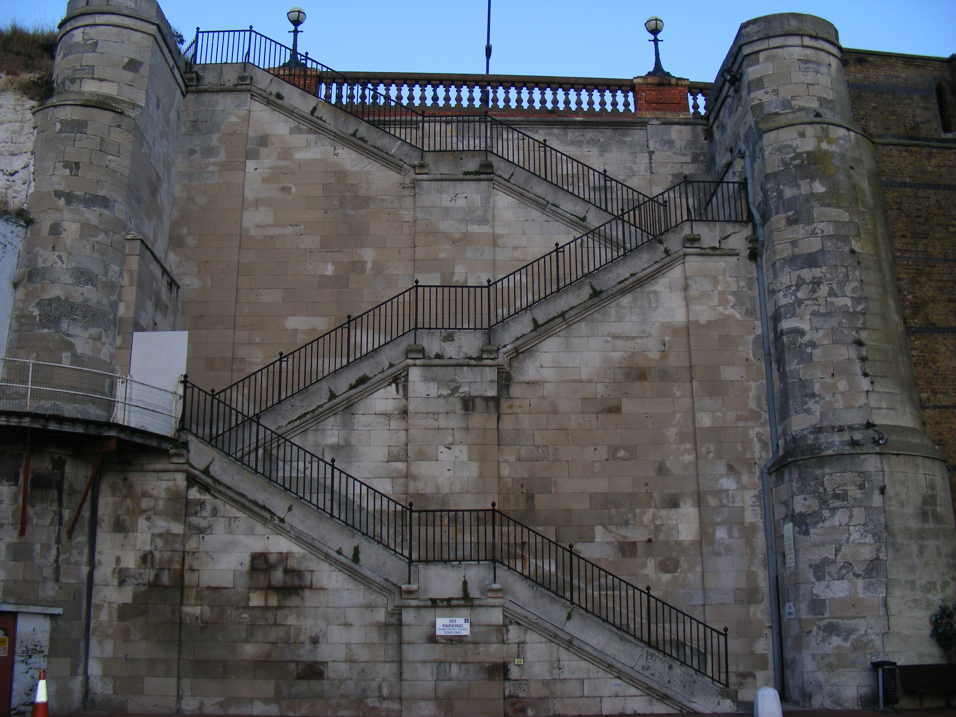 Jacob's Ladder, Ramsgate This stone staircase later replaces a wooden one built in 1754